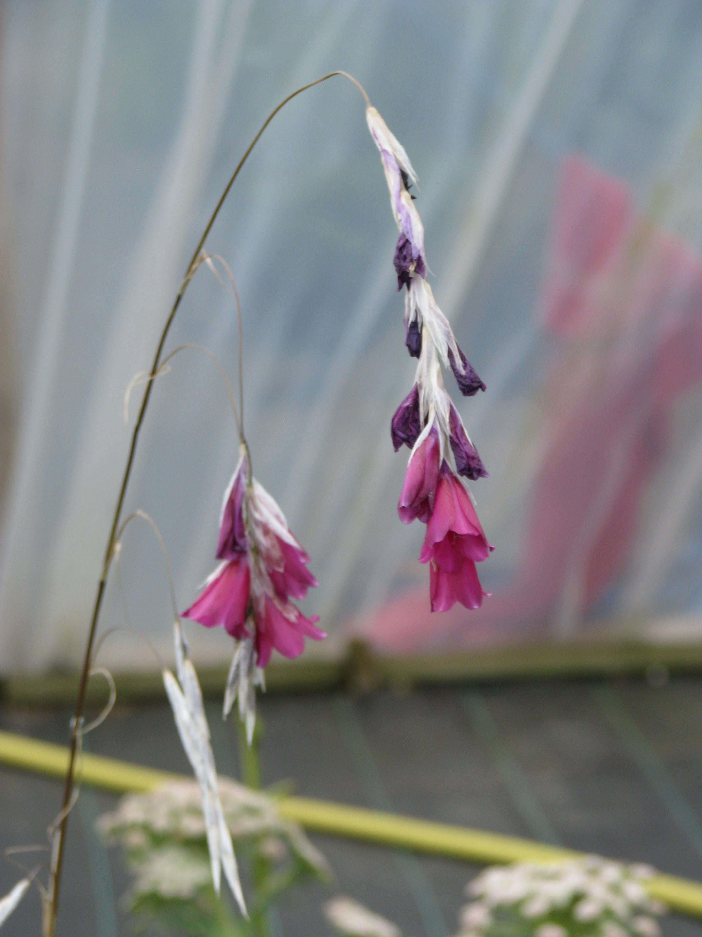 I have waited so long for this. I bought plants from two sources some years ago. I kept them in pots and brought them inside in winter and they did nothing but slowly deteriorate. Last year I ave up and let them take their chances in the alpine bed at the nursery. One turned out to be a nondescript white species, but then this happened. Gorgeous or wot?